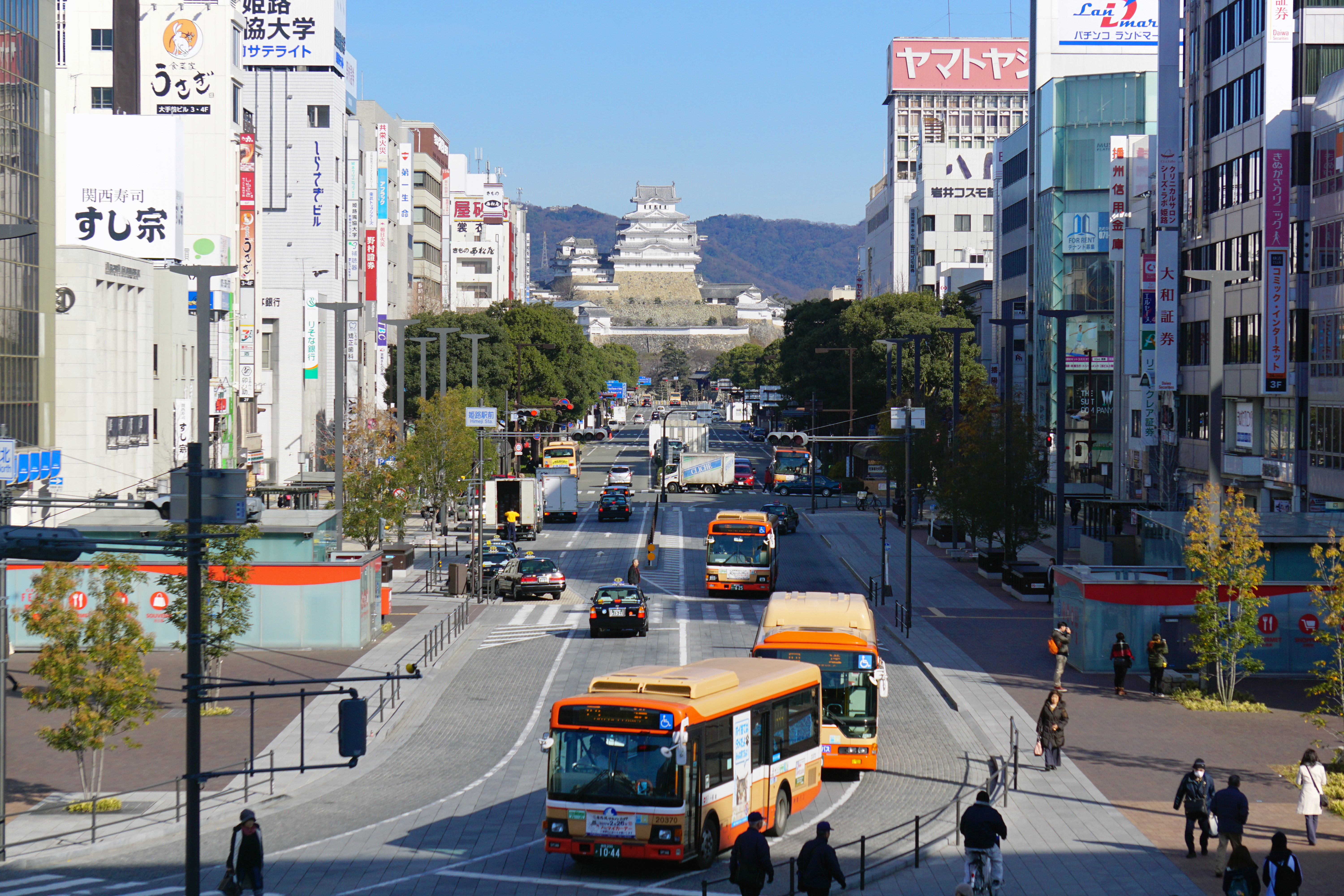 Himeji Castle view from Himeji Station in Himeji, Hyogo prefecture, Japan